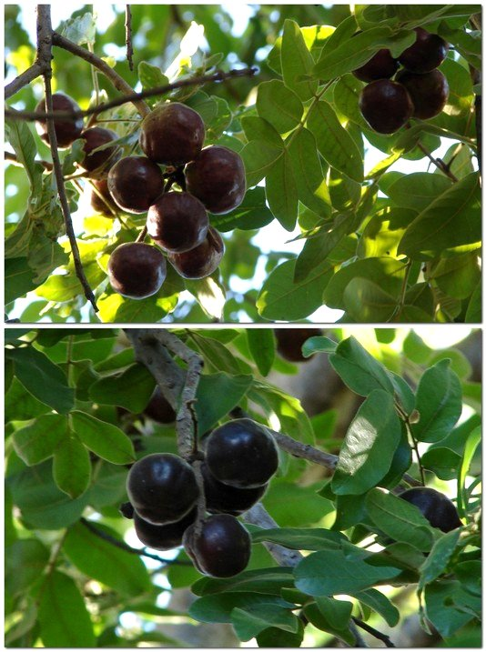 Australian 'bush tucker' The fruit were popular with Aborigines, explorers and settlers. I really enjoy the taste, when they are soft ripe, despite the large stone. Family: Anacardiaceae (relative to mango, Cashew and sumac )